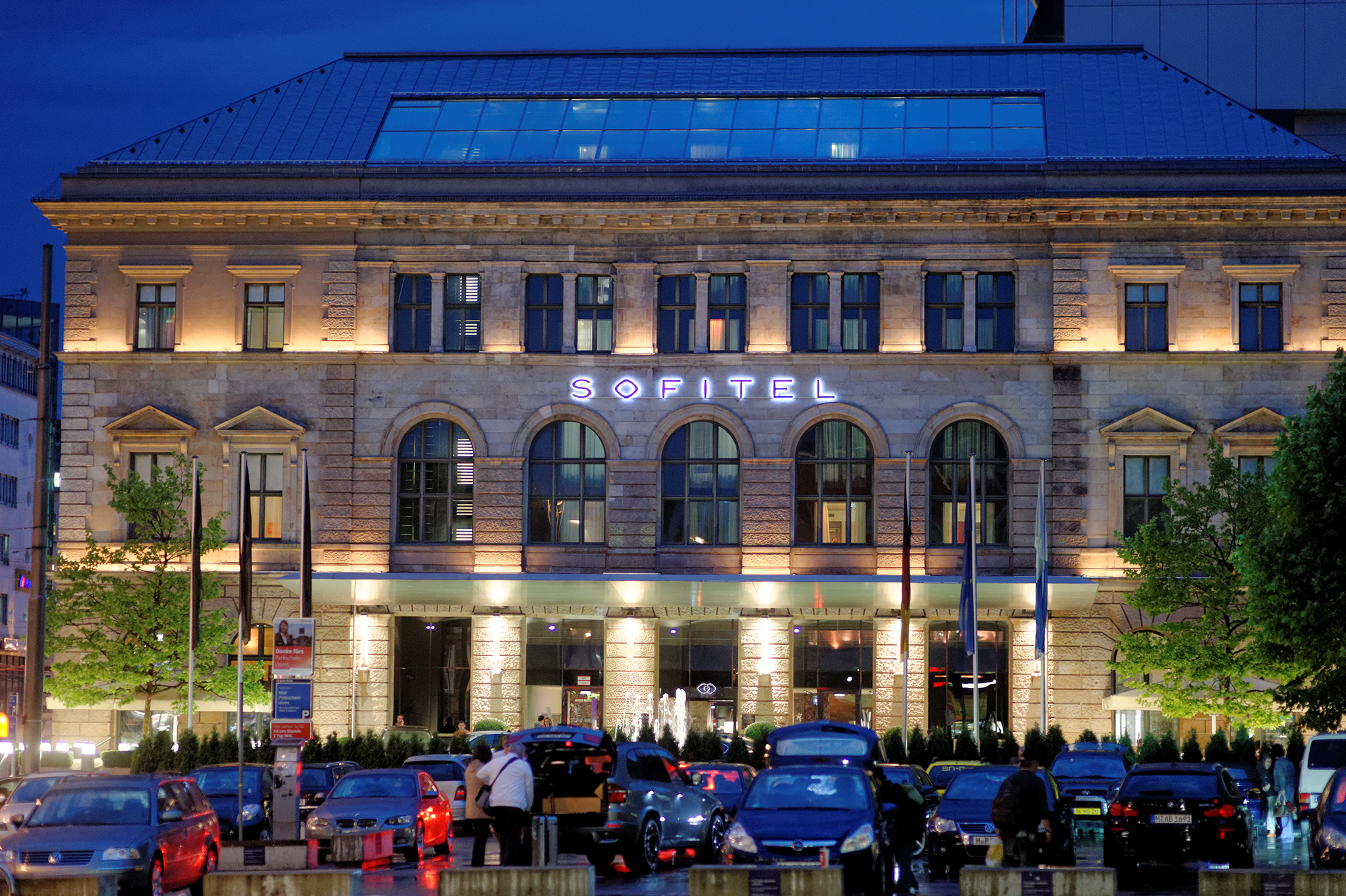 Sofitel Munich Bayerpost at sunset